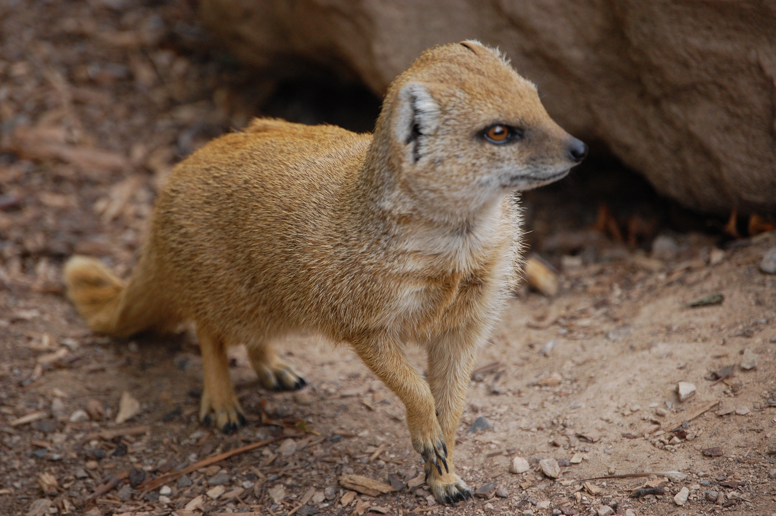 Yellow Mongoose (Cynictis penicillata) at the London Zoo.